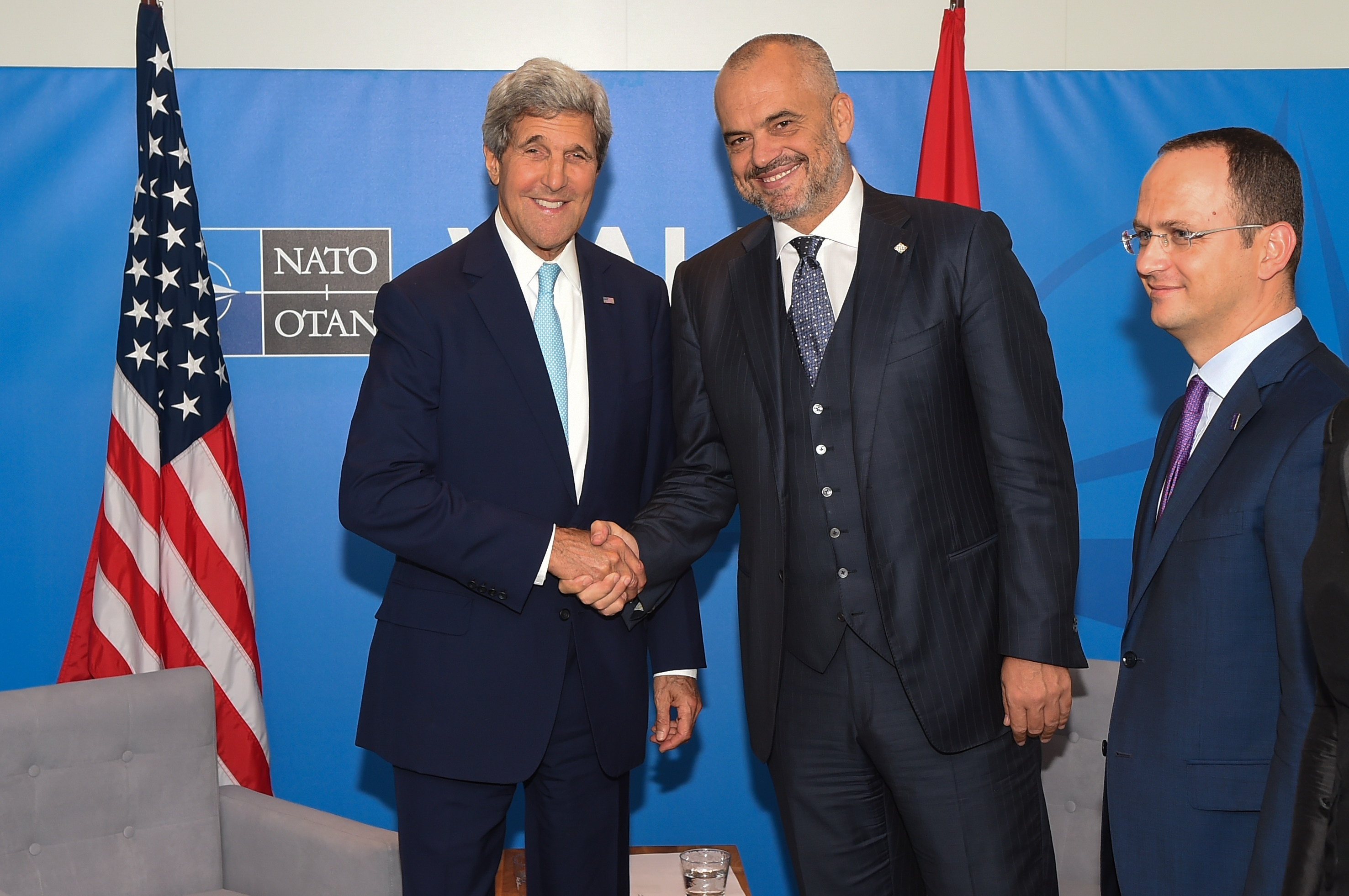 U.S. Secretary of State John Kerry shakes hands with Albanian Prime Minister Edi Rama as Albanian Foreign Minister Ditmir Bushati looks on before a bilateral meeting on September 5, 2014, on the sidelines of the NATO Summit in Newport, Wales, United Kingdom. [State Department photo/ Public Domain]